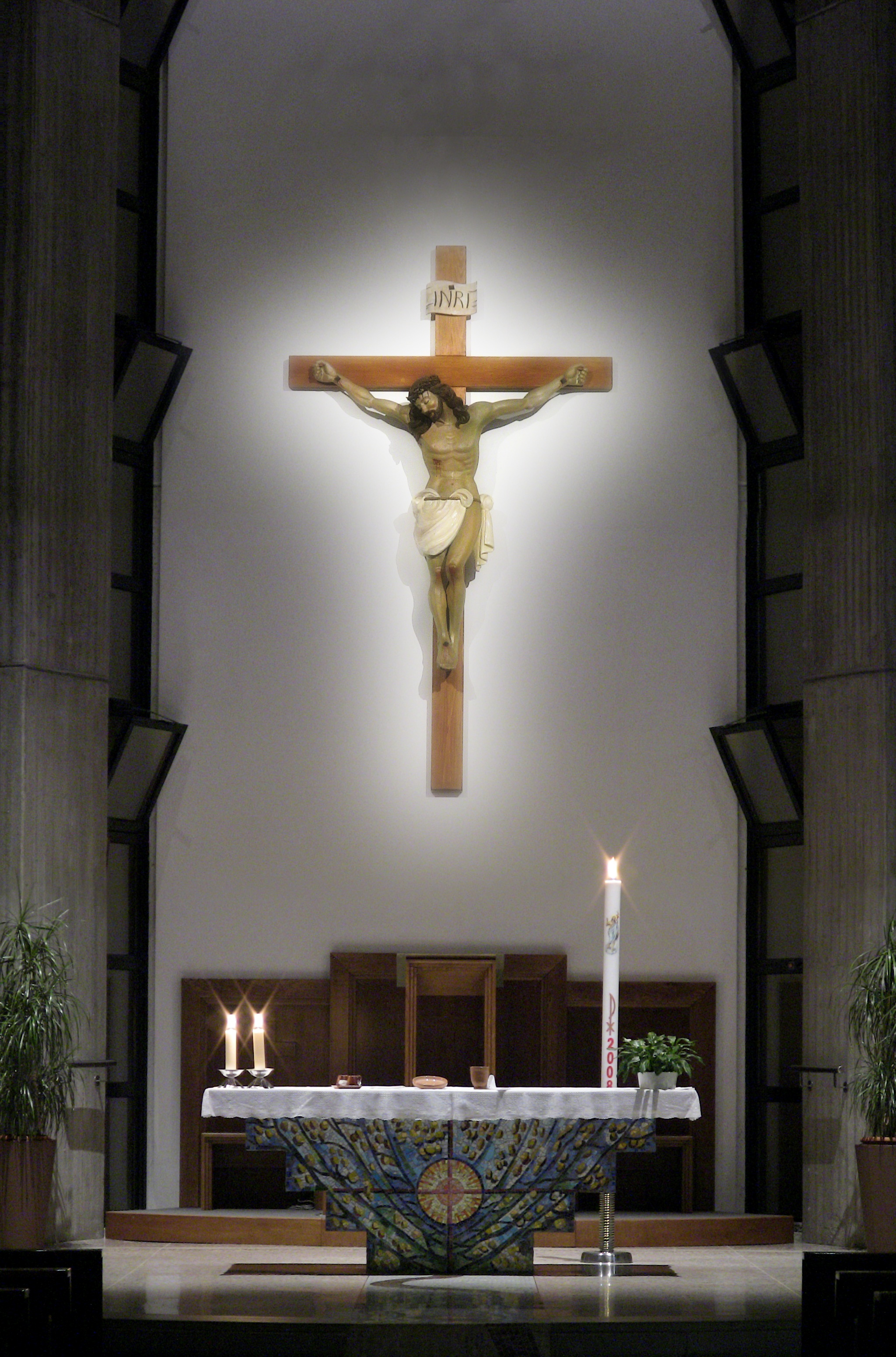 Altar with crucifix at night. The light on the crucifix was composed from 2 different exposures (1 with the converged square light, 1 with only global illumination).